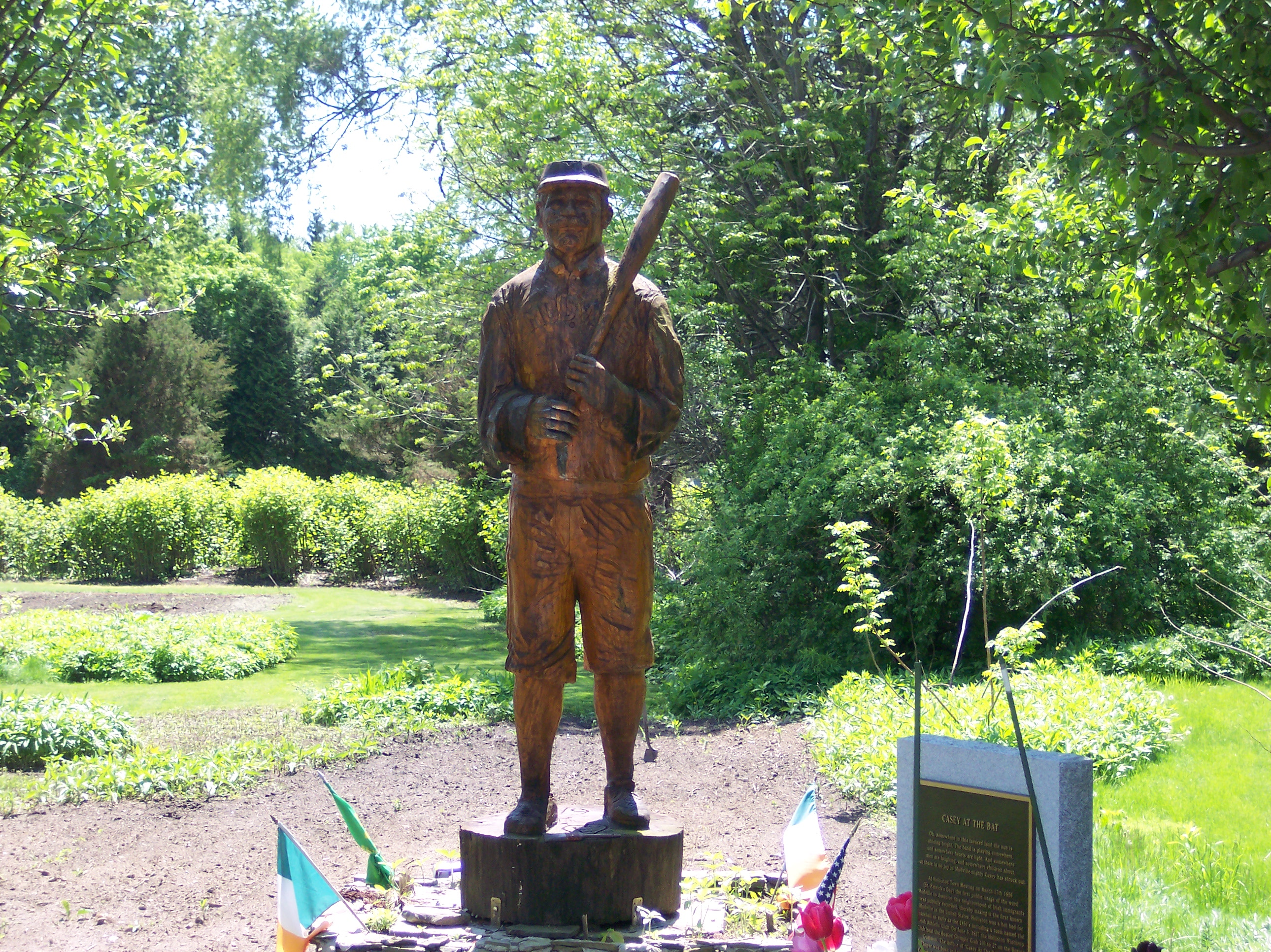 I took this picture myself.